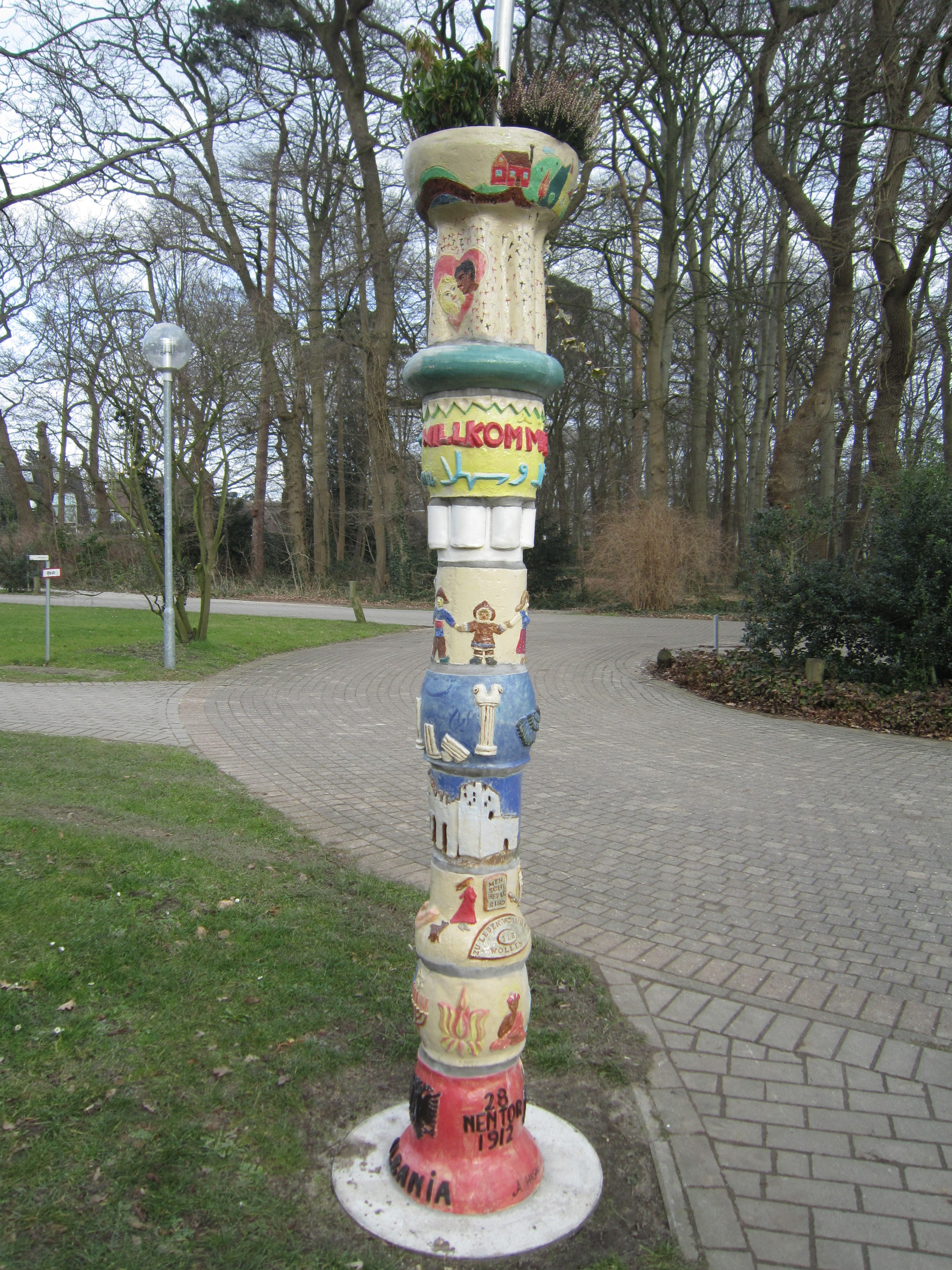 Welcome column in Osterholz (Bremen) near a refugees' hostel